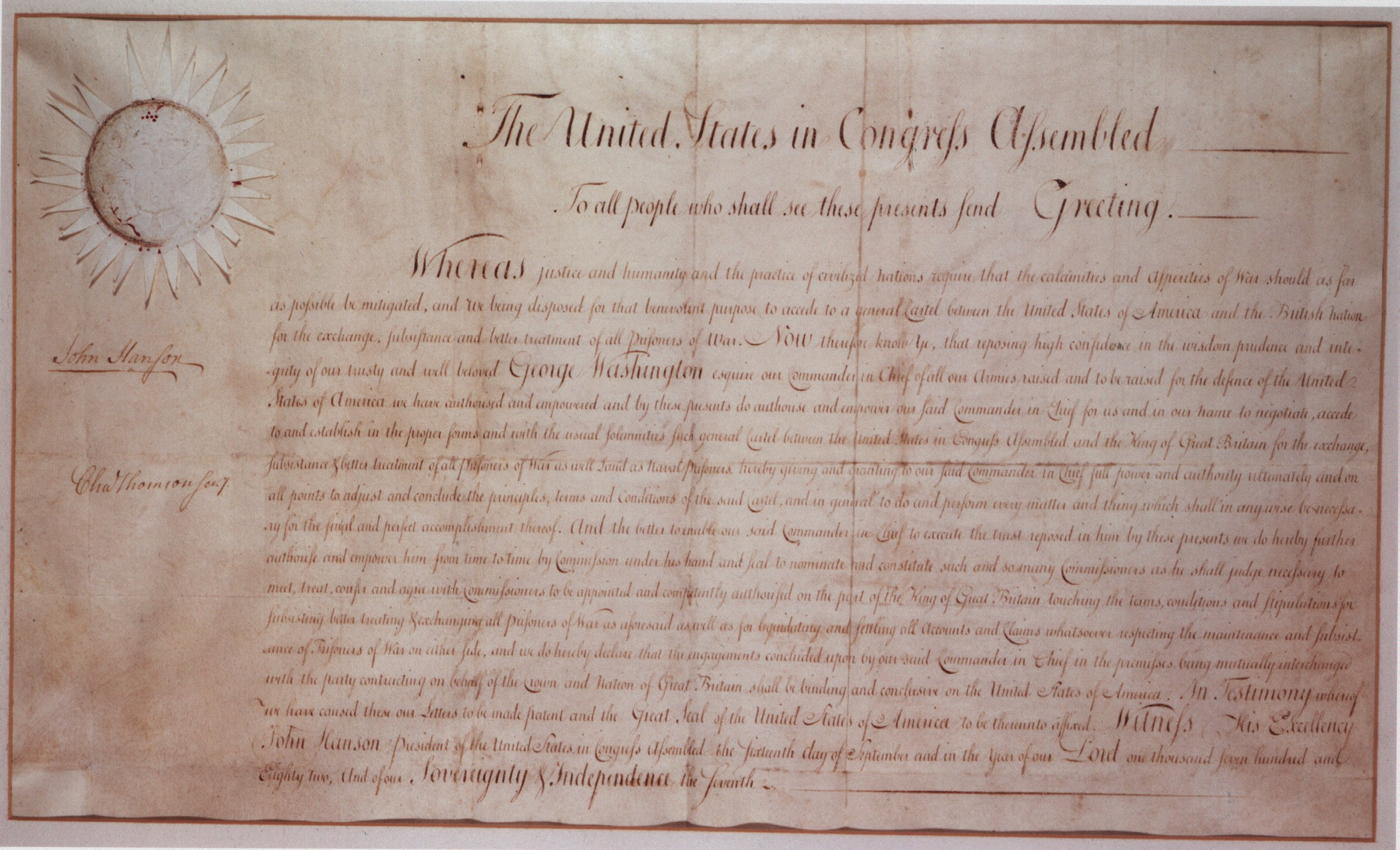 A document of the Continental Congress, signed by President of the Congress John Hanson and Secretary of Congress Charles Thomson, giving George Washington the authority to negotiate with Great Britain for the "exchange, subsistence, and better treatment of prisoners of war." This was the first document impressed with the Great Seal of the United States, which had been designed a few months previously.